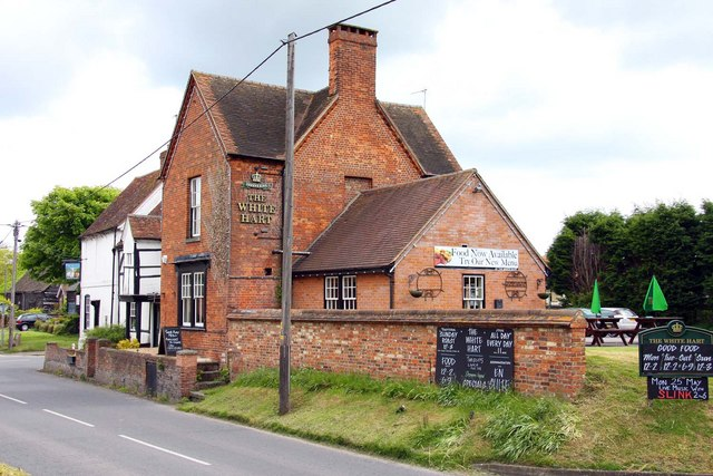 The White Hart pub, Harwell, Oxfordshire (formerly Berkshire), seen from the southwest from Drewitts Corner